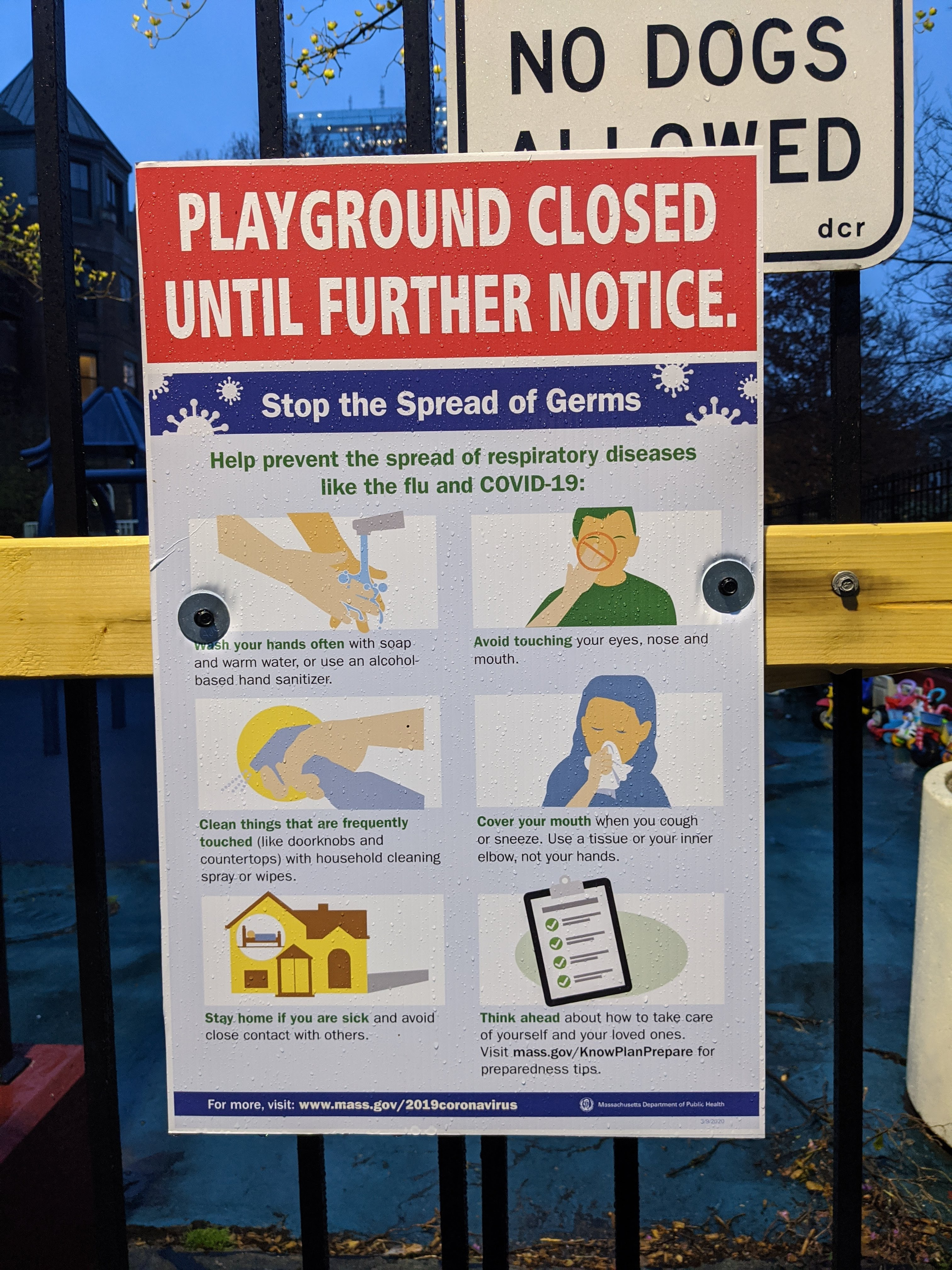 Sign on a Boston playground gate advising that the playground is closed until further notice due to the coronavirus pandemic, and instructing users to wash their hands, avoid touching their face, clean things that are frequently touched, cover their mouths when coughing and sneezing, stay home if they're sick, and think ahead about how to take care of themselves and their loved ones.